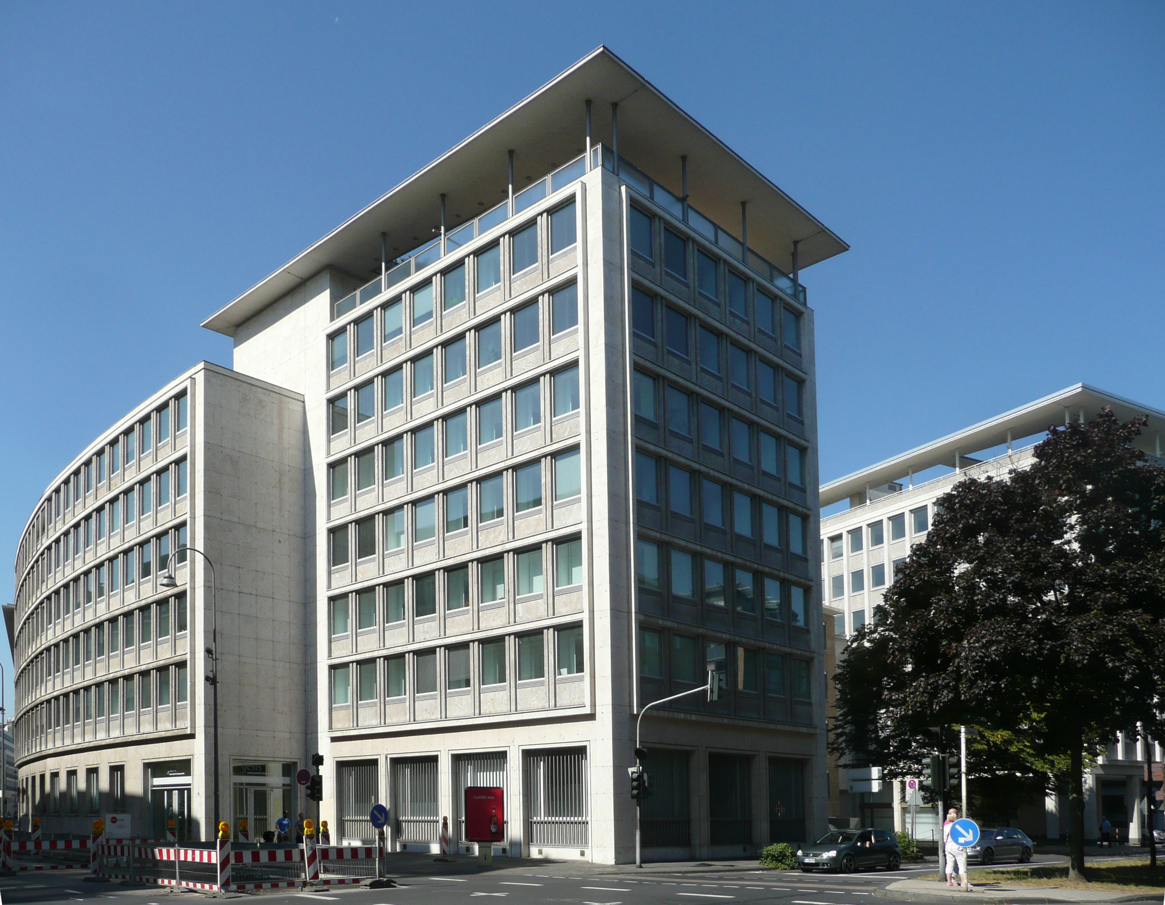 Former buildings of Herstatt Bank, Unter Sachsenhausen 6, Cologne. View from the corner of Unter Sachsenhausen and Tunisstraße. This is a photograph of an architectural monument.